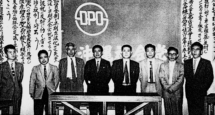 Noboru Kakazu